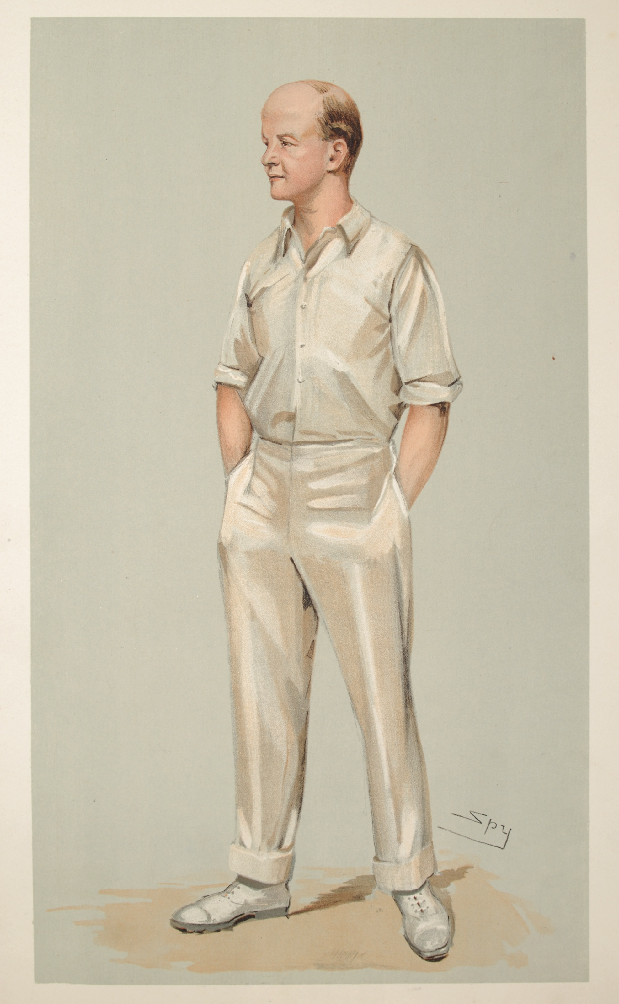 Caricature of Pelham Warner (1873-1963), England cricket captain.